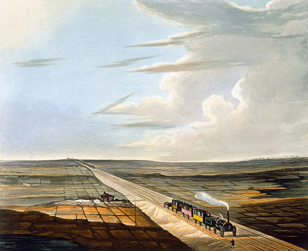 The crossing of Chat Moss by the Liverpool and Manchester Railway. The creation of a stable trackbed across this treacherous area of deep peat bog was one of the most difficult challenges faced by the constructors of the line.